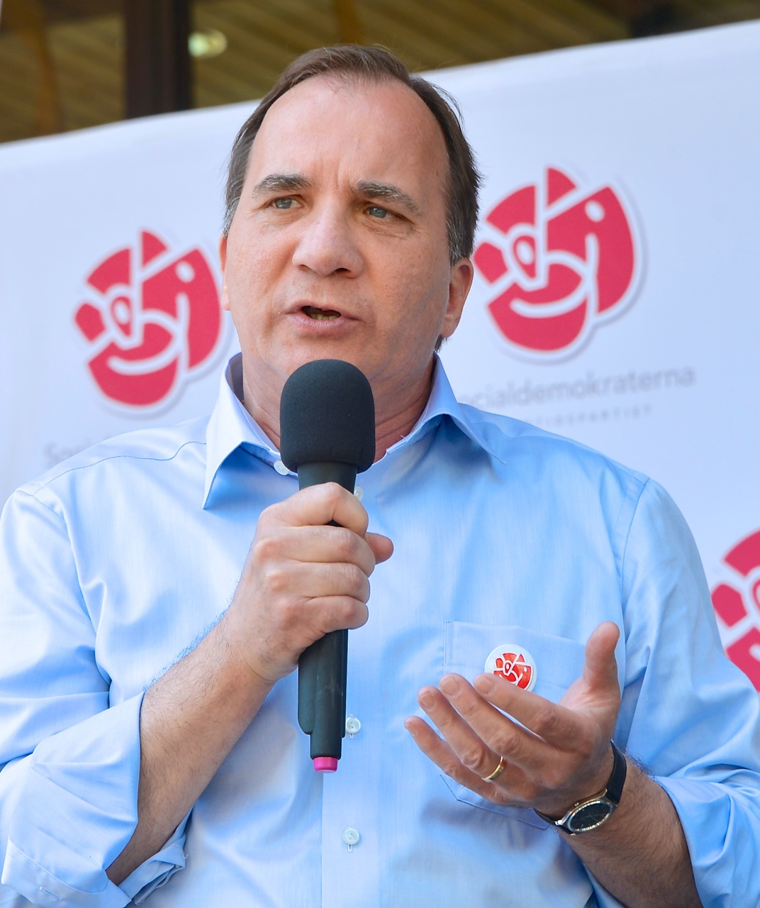 Stefan Löfven speaks at Sergels torg in Stockholm May 24 2014, before the European election the next day.